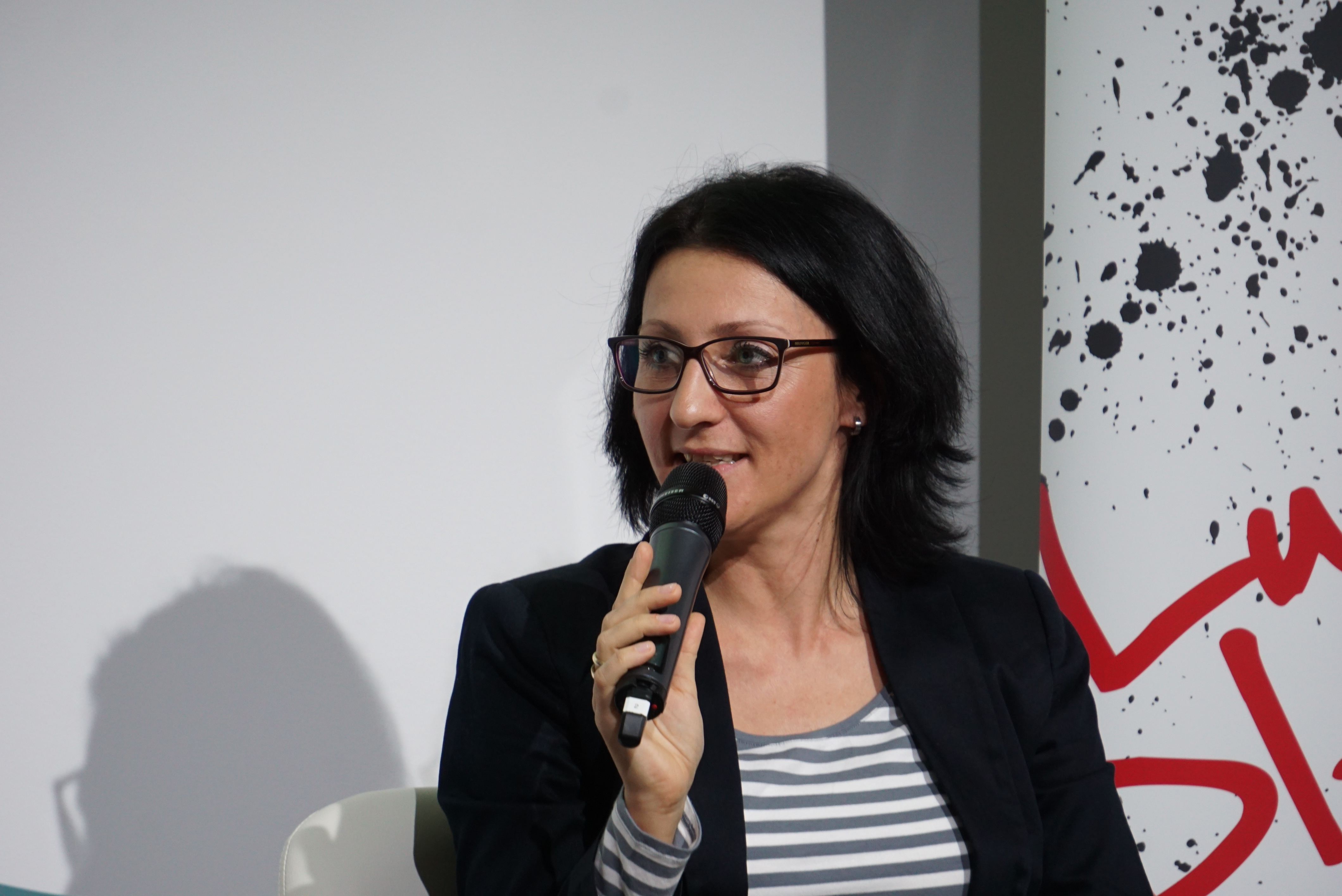 Prof. Dr. Ilona Buchem (Beuth Hochschule für Technik Berlin)_6